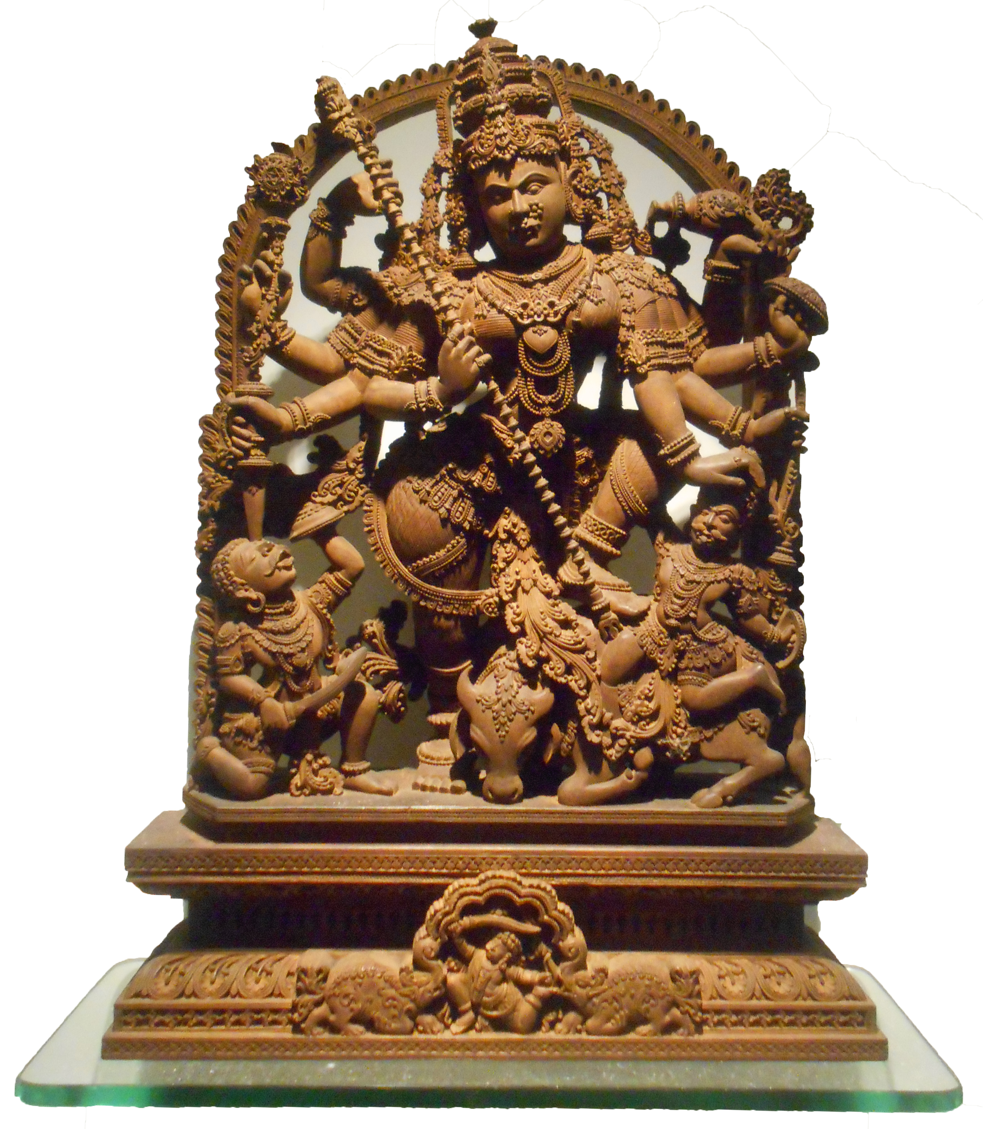 Devi Durga Sculpture By Sandalwood, found in Murshidabad, West Bengal, India. Now it is kept in Indian Museum, Kolkata